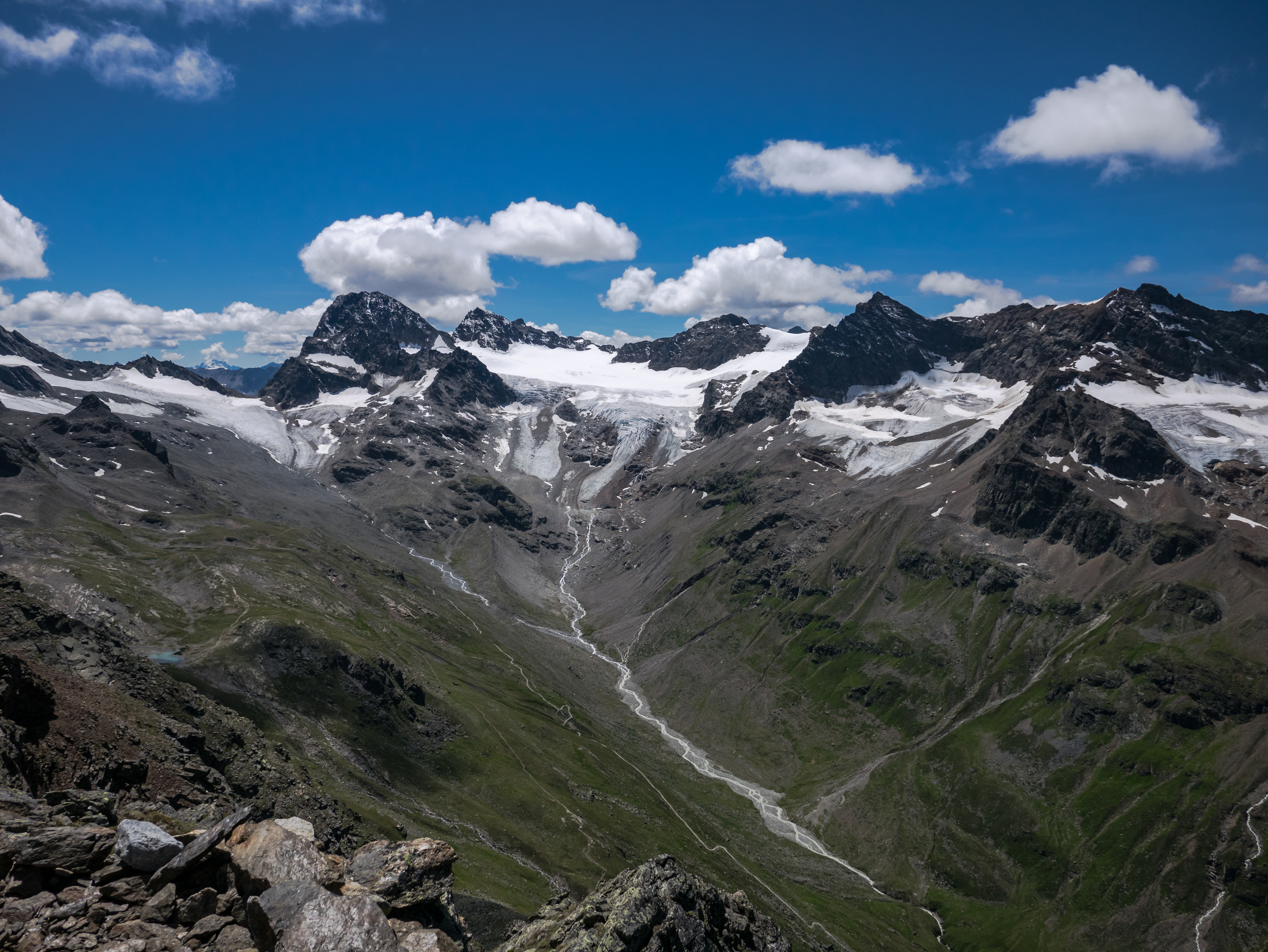 End of Ochsental valley, glaciers and Piz Buin; origin of the Ill river. Vorarlberg, Austria